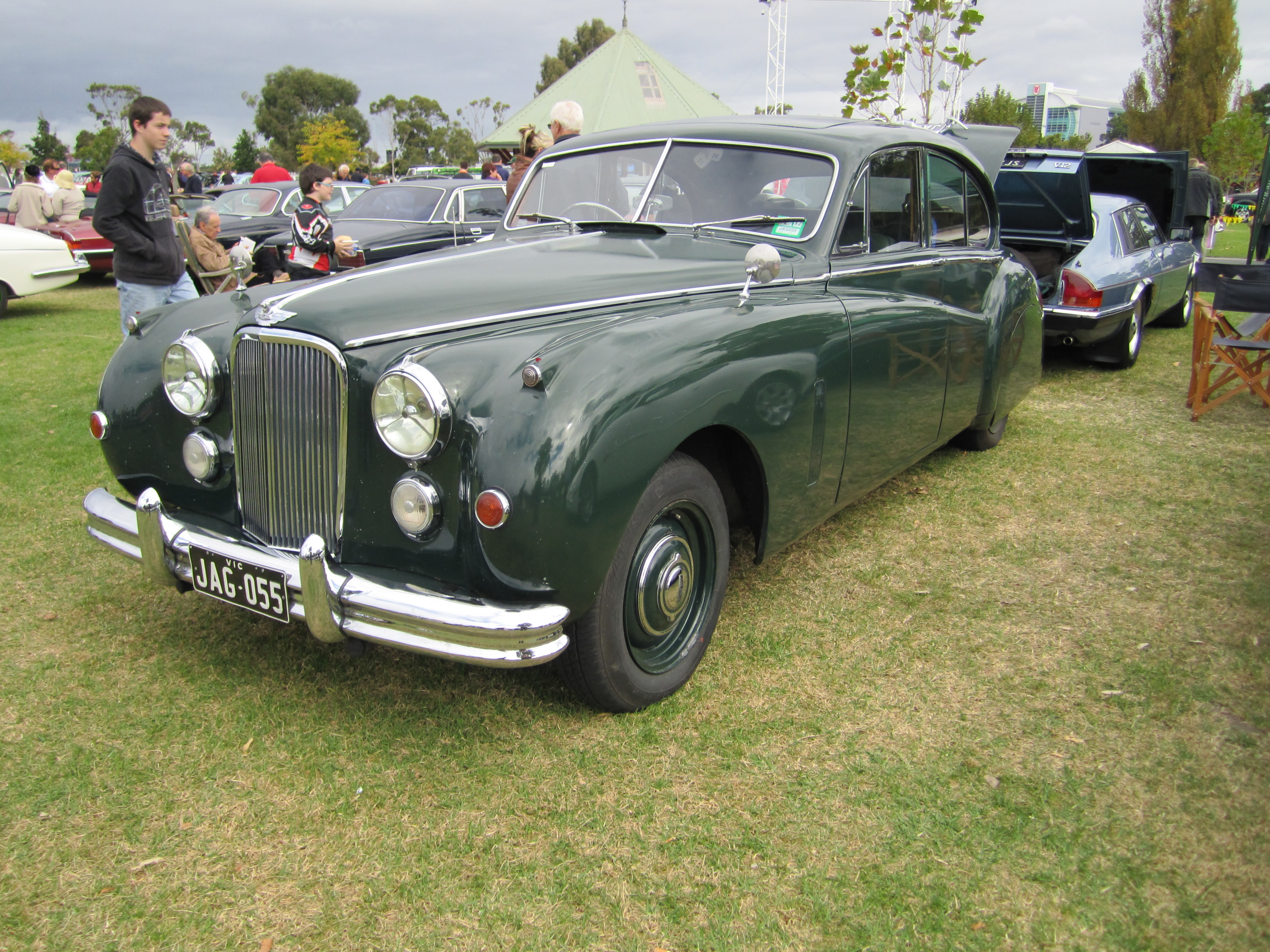 Built from 1951-57. Only 4 door sedan. Engine; 3442cc 6 cyl